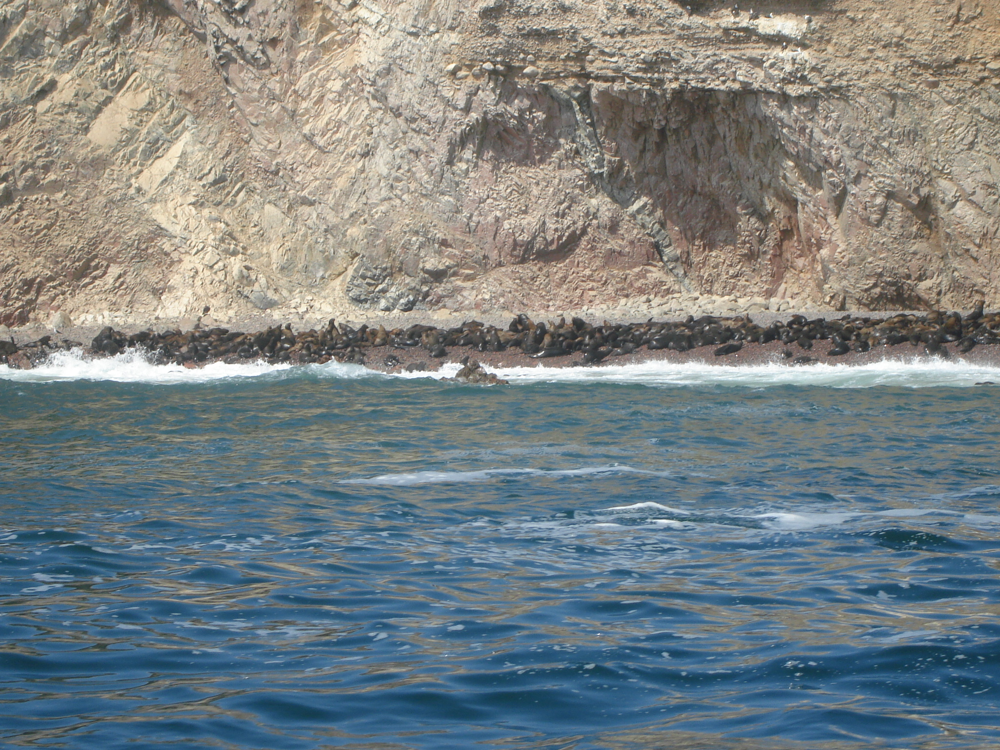 Description: Islas Ballestas Subject: Lobos marinos Place: Reserva Nacional de Paracas Country: Peru Photographer: © Victoria Alexandra González Olaechea Yrigoyen Shot date : December, 9th, 2006